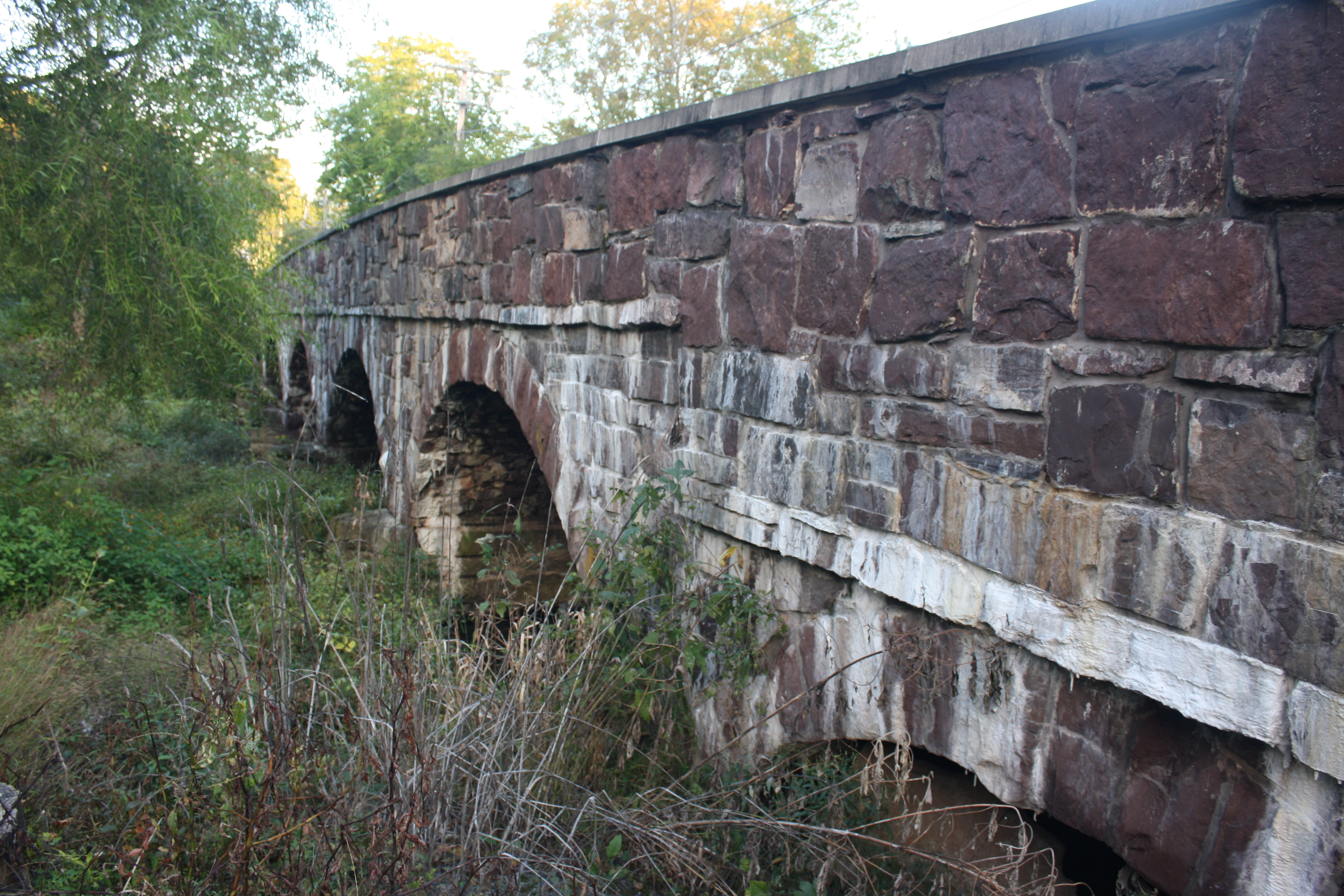 Bridge in Buckingham Township Object location40° 16′ 53.04″ N, 75° 01′ 18.84″ W